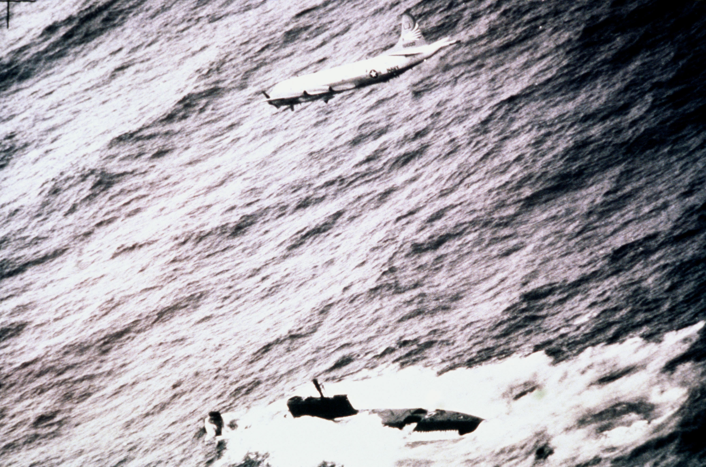 A U.S. Navy Lockheed P-3C Orion (BuNo 161000) from Patrol Squadron VP-23 Seahawks flying over a Soviet Juliett-class submarine in 1982.